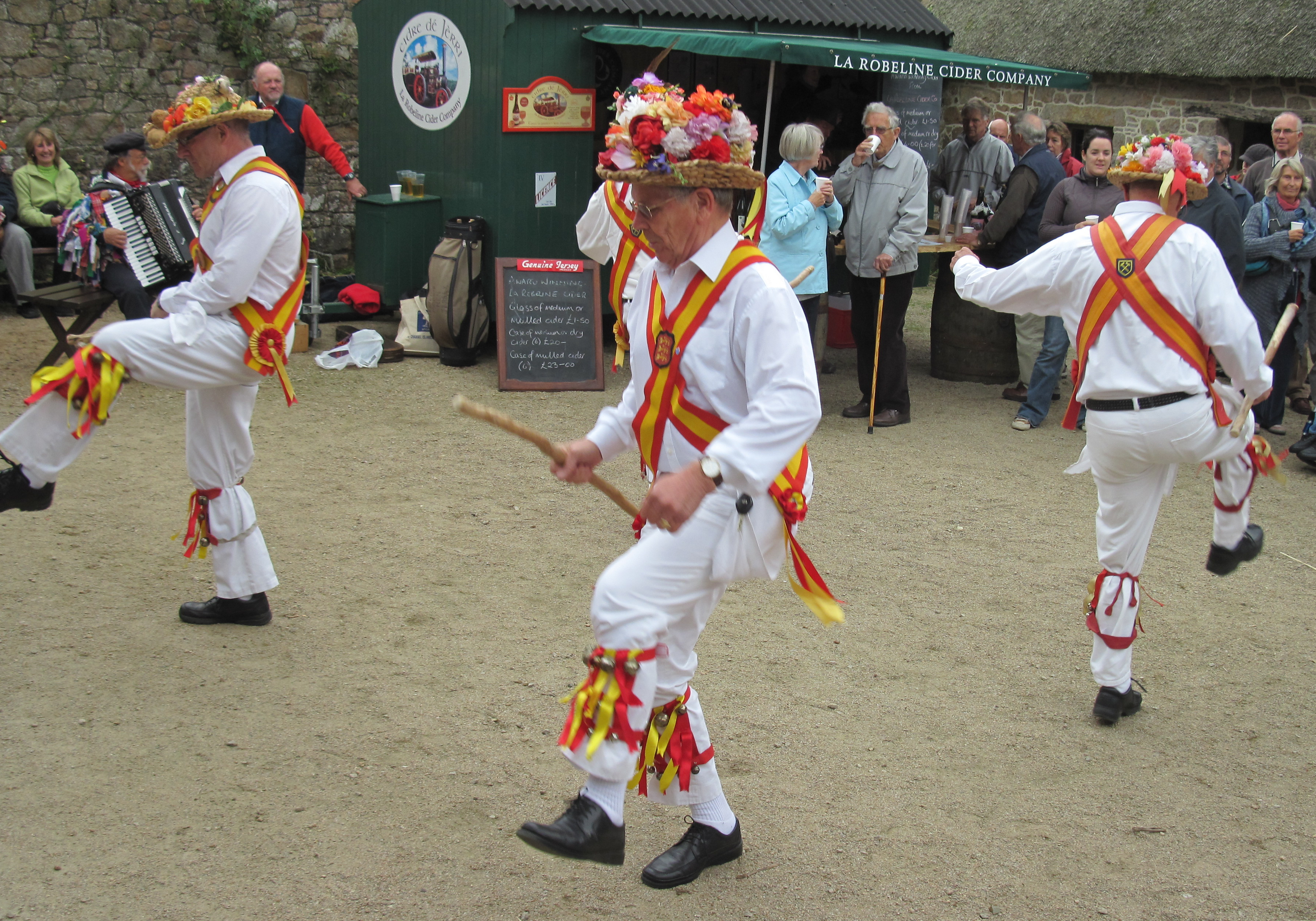 Helier Morris morris dance group, Jersey